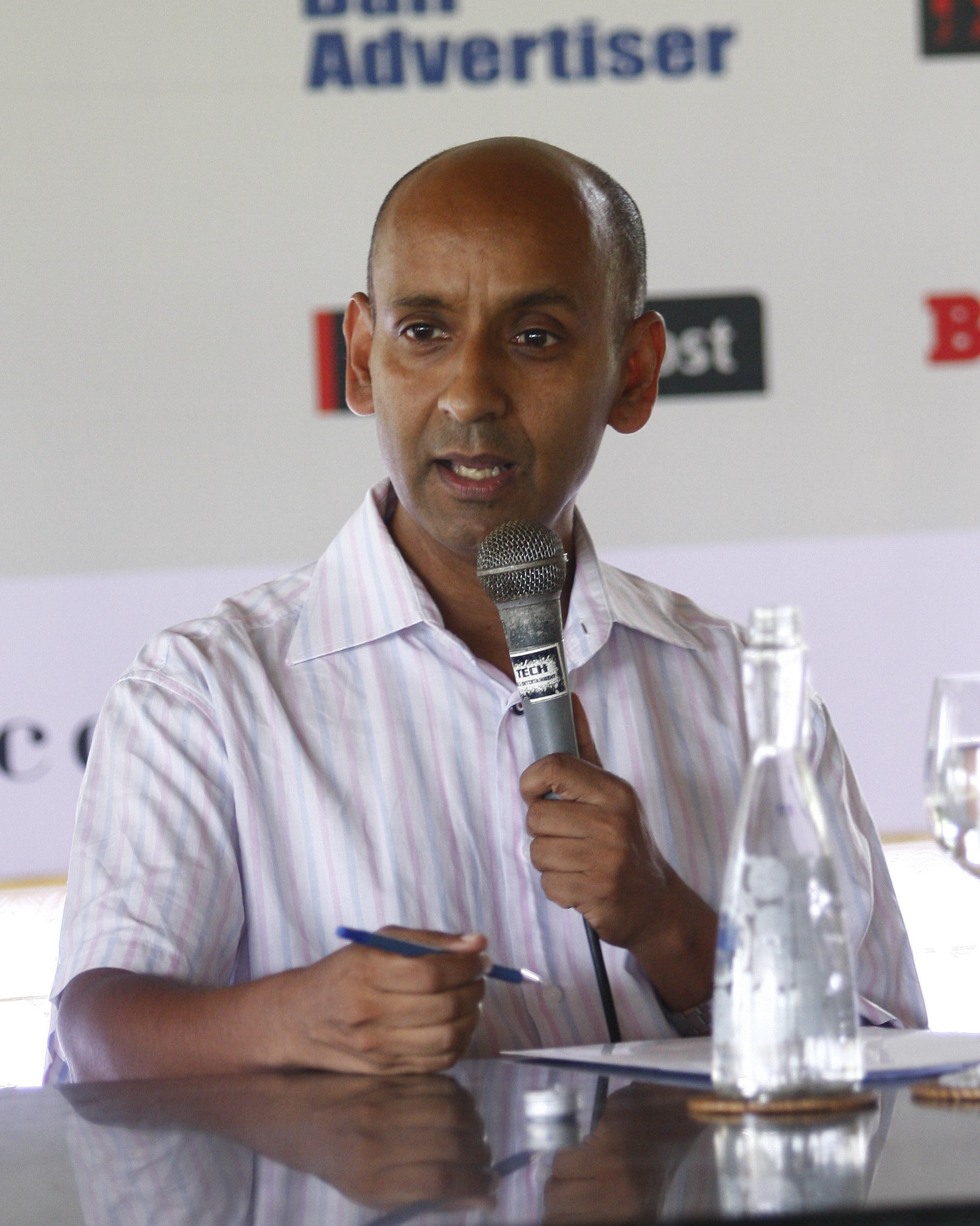 Ubud Writers & Readers Festival 2012. Image credit Stanny Angga.